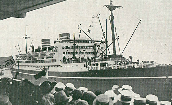 View of Nippon Yusen's ocean liner MS Asama Maru